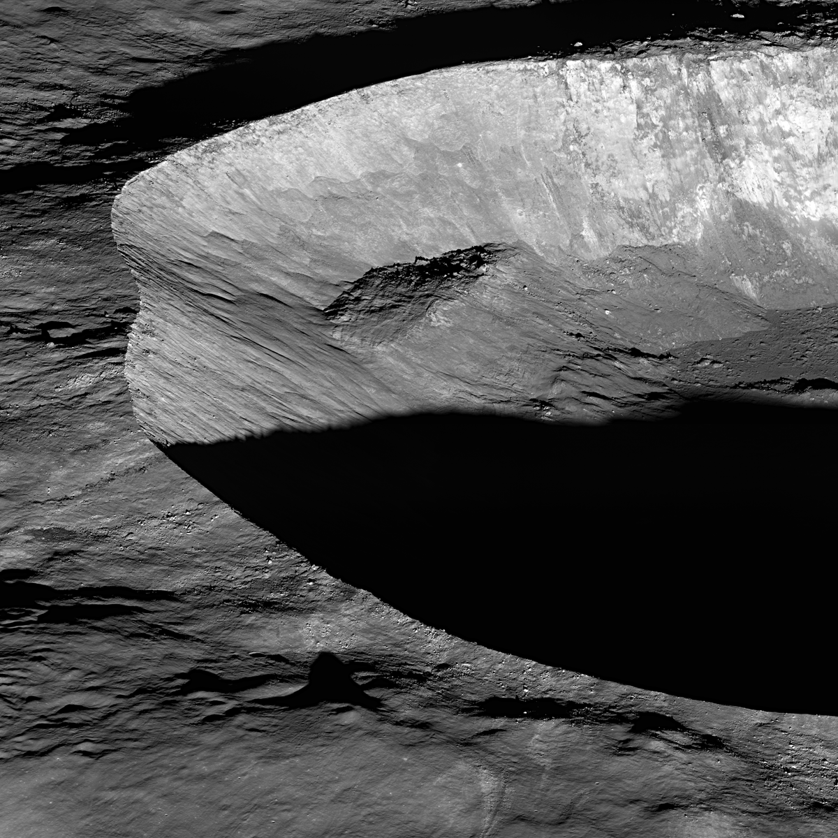 Sunset Over Giordano Bruno